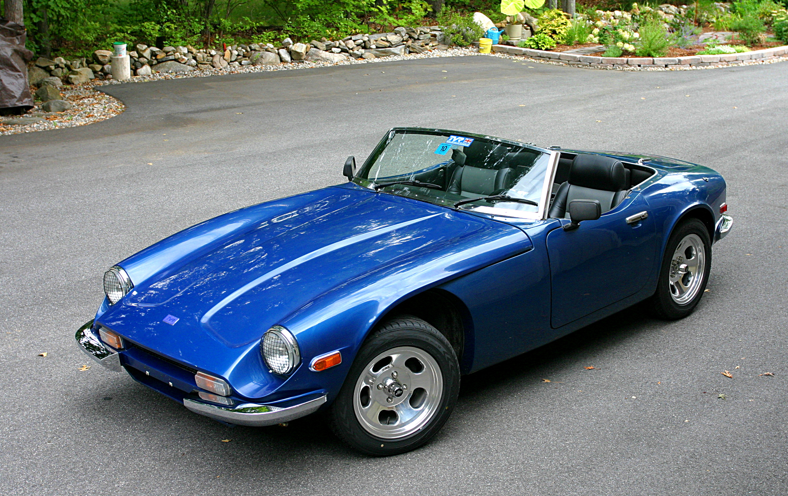 A 1979 TVR 3000S fitted with chrome bumpers. This is chassis number 4964FM, which is the second to last 3000S built and the very last TVR M Series imported to North America by the factory. It is retrofitted with earlier chromed steel bumpers, aftermarket wheels, and Pontiac Fiero seats. The convertible top has been removed.